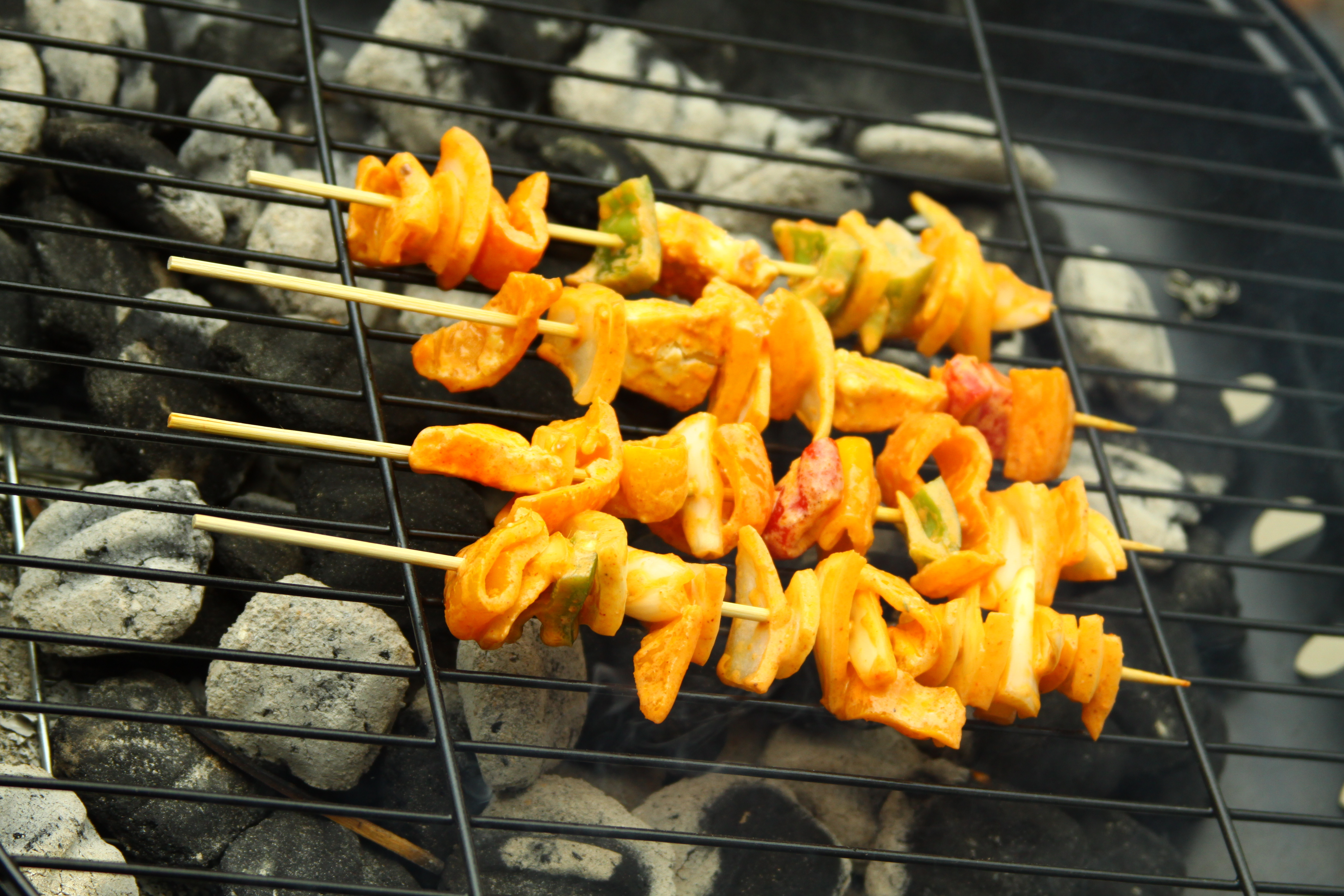 Indian cottage cheese marinated in yogurt and spices and grilled